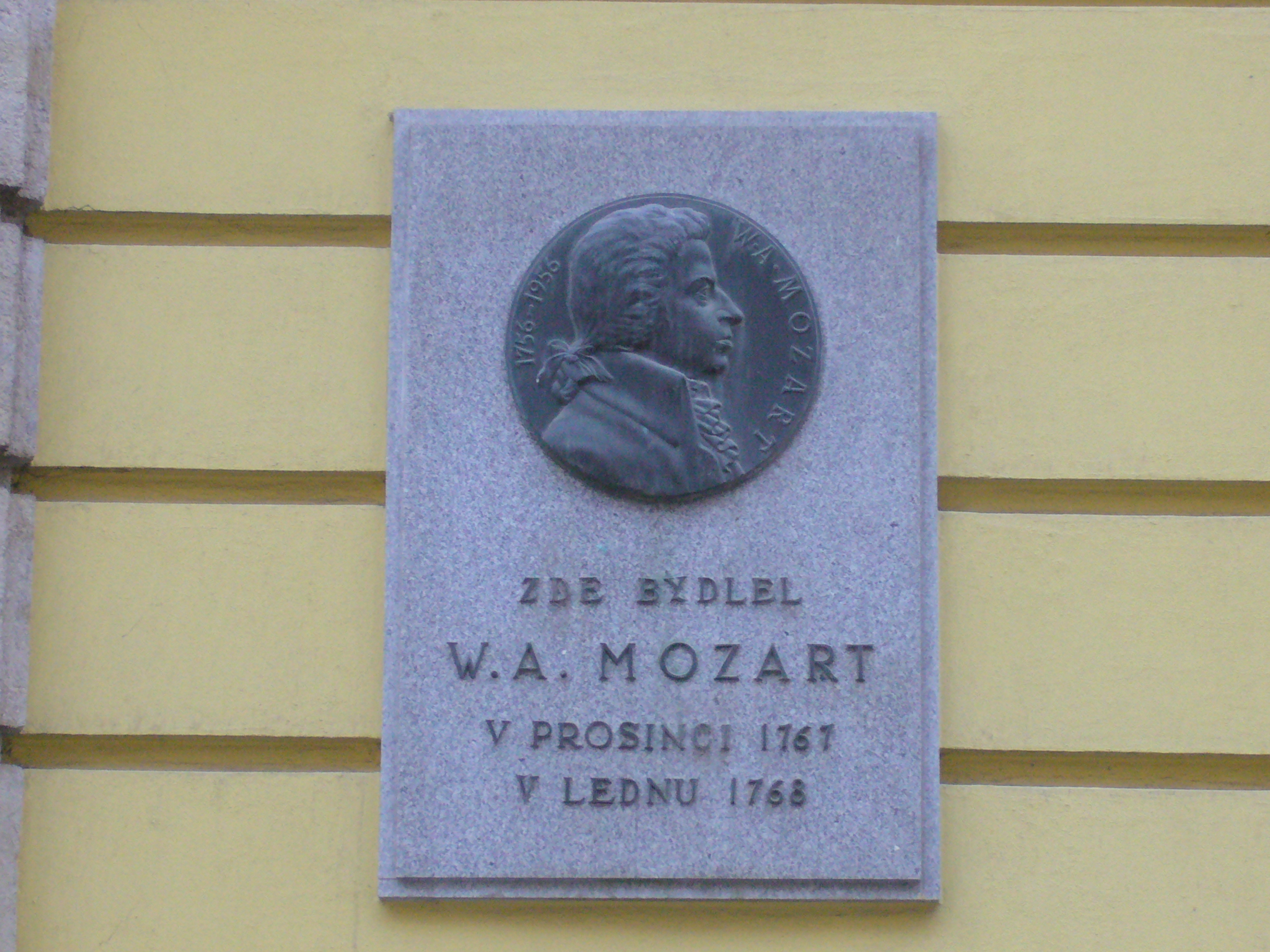 Memorial plaque on the Schrattenbach palace in Kobližná street in Brno.